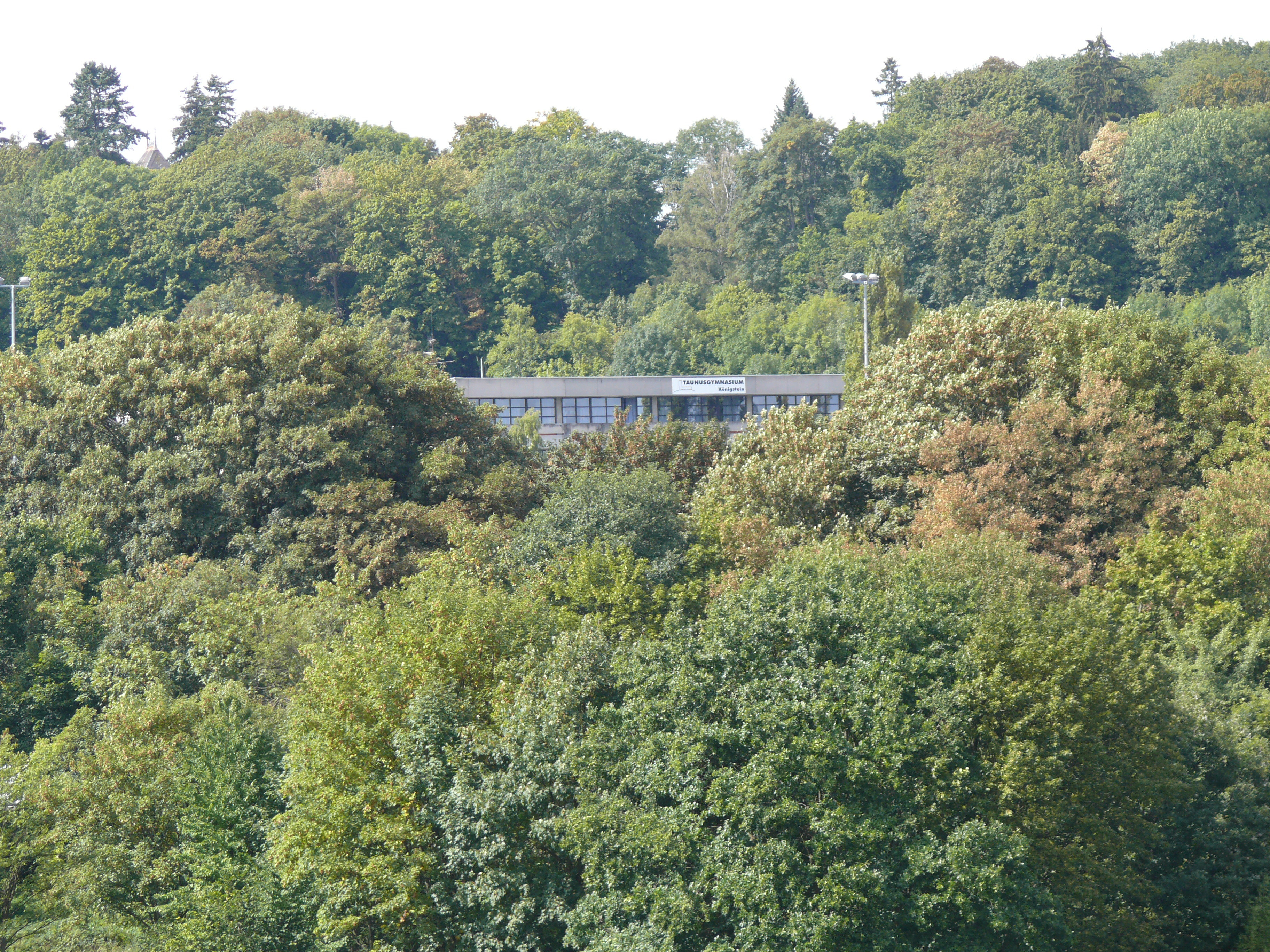 "Taunusgymnasium" (grammar- or high school) in Koenigstein (Taunus)